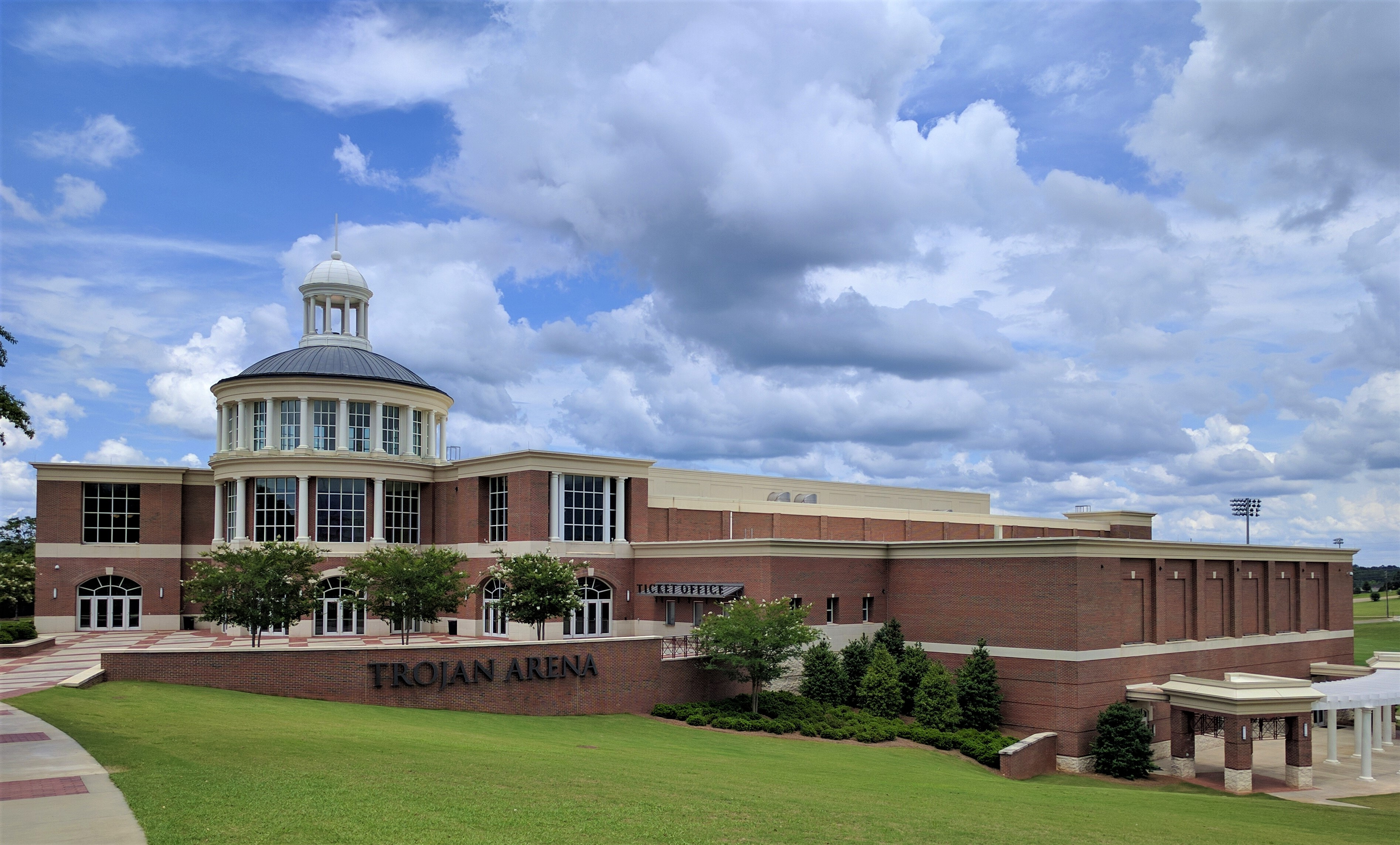 Entrance view/main plaza of Trojan Arena.